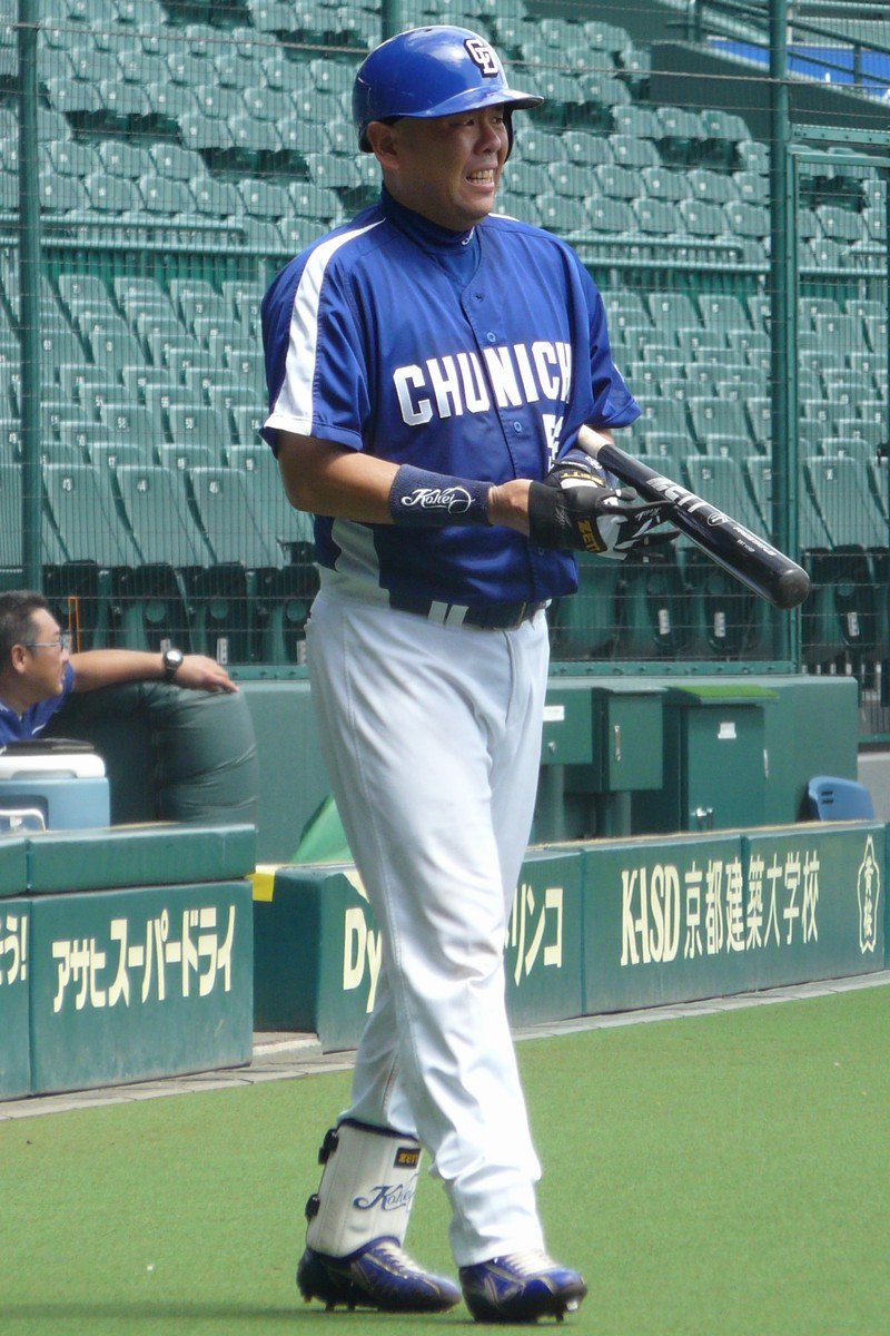 Kohei Oda